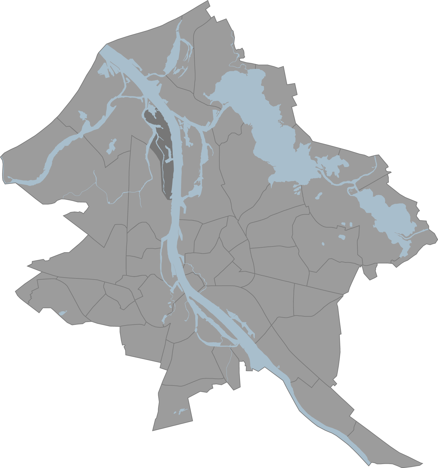 A map of Riga, Latvia with the eponymous commune highlighted